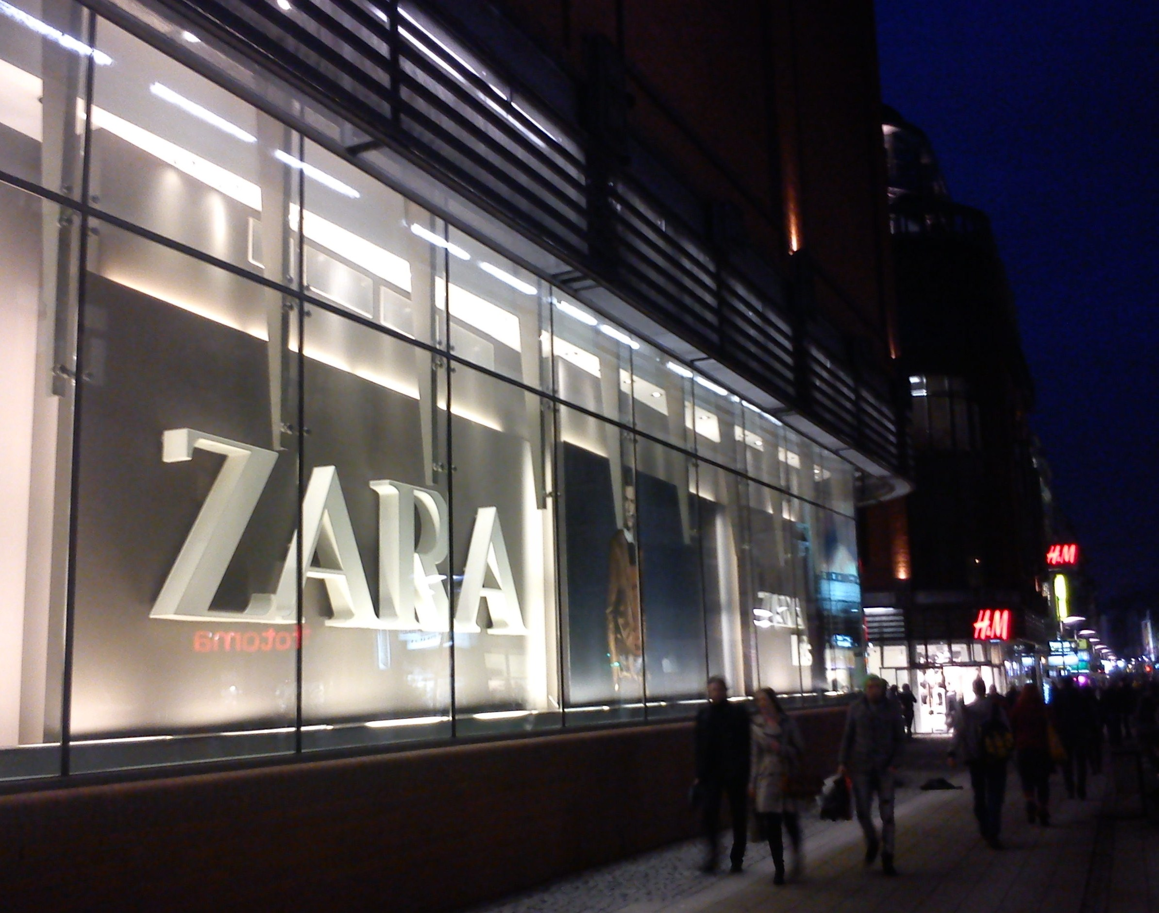 ZARA Shop in Poznań (Stary Browar).